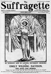 Suffragette, Emily Wilding Davison memorial issue, 13 June 1913, of the newspaper edited by Christobel Pankhurst